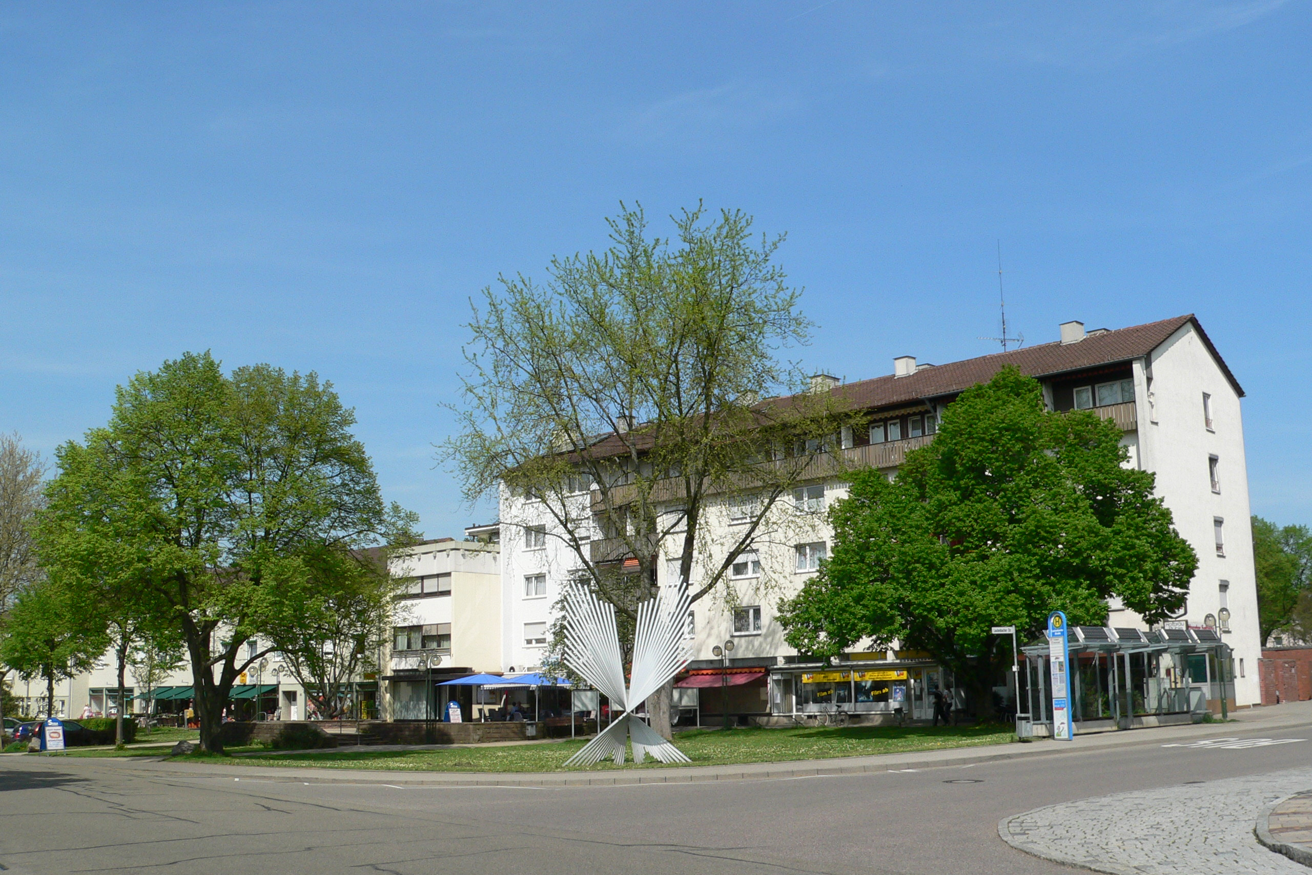 Centre of the old part of Neckarsulm-Amorbach (the part of the town Neckarsulm)